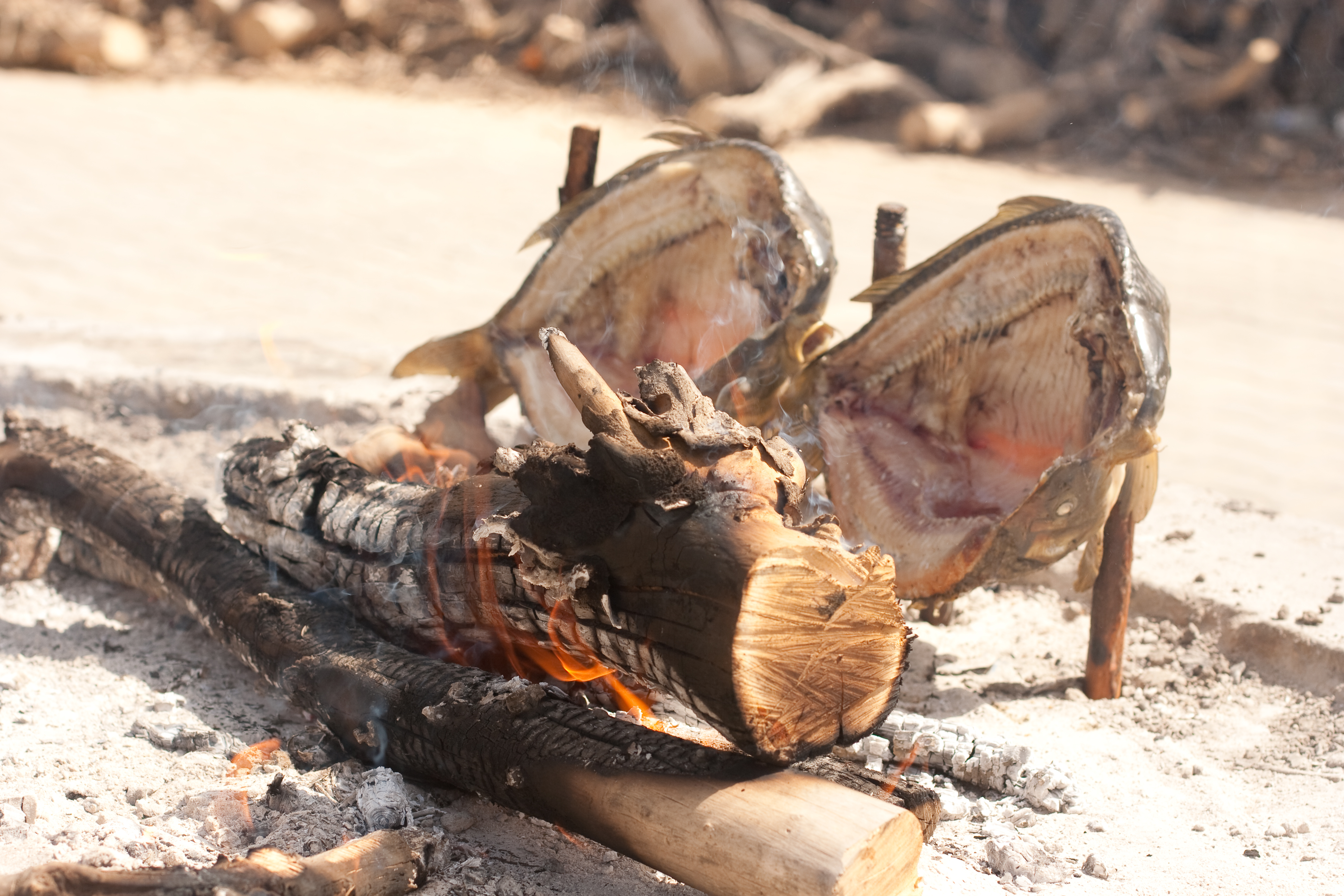 Fish cookedon an open flame